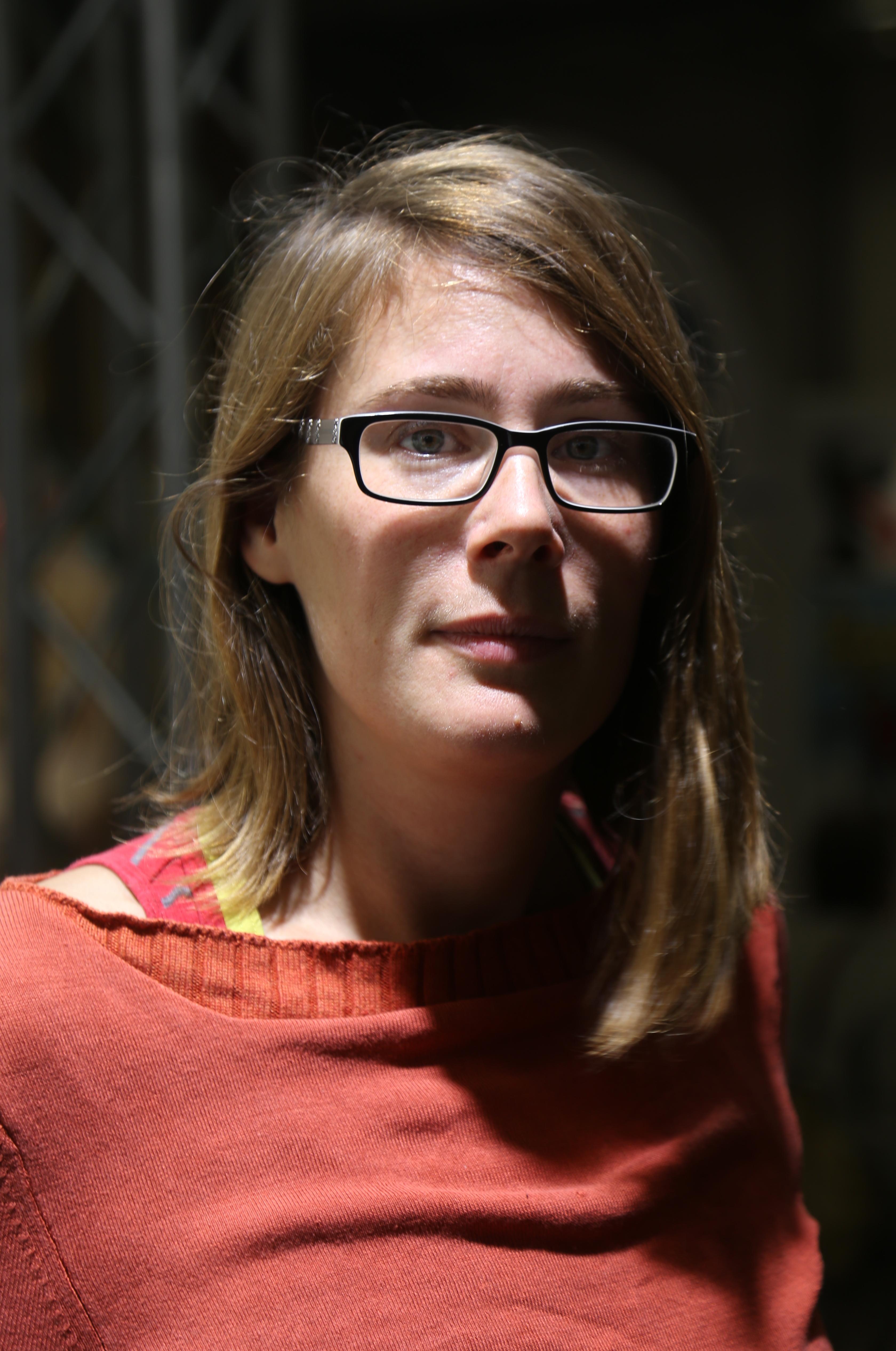 Sofia Nordin at the Gothenburg Book Fair 2014